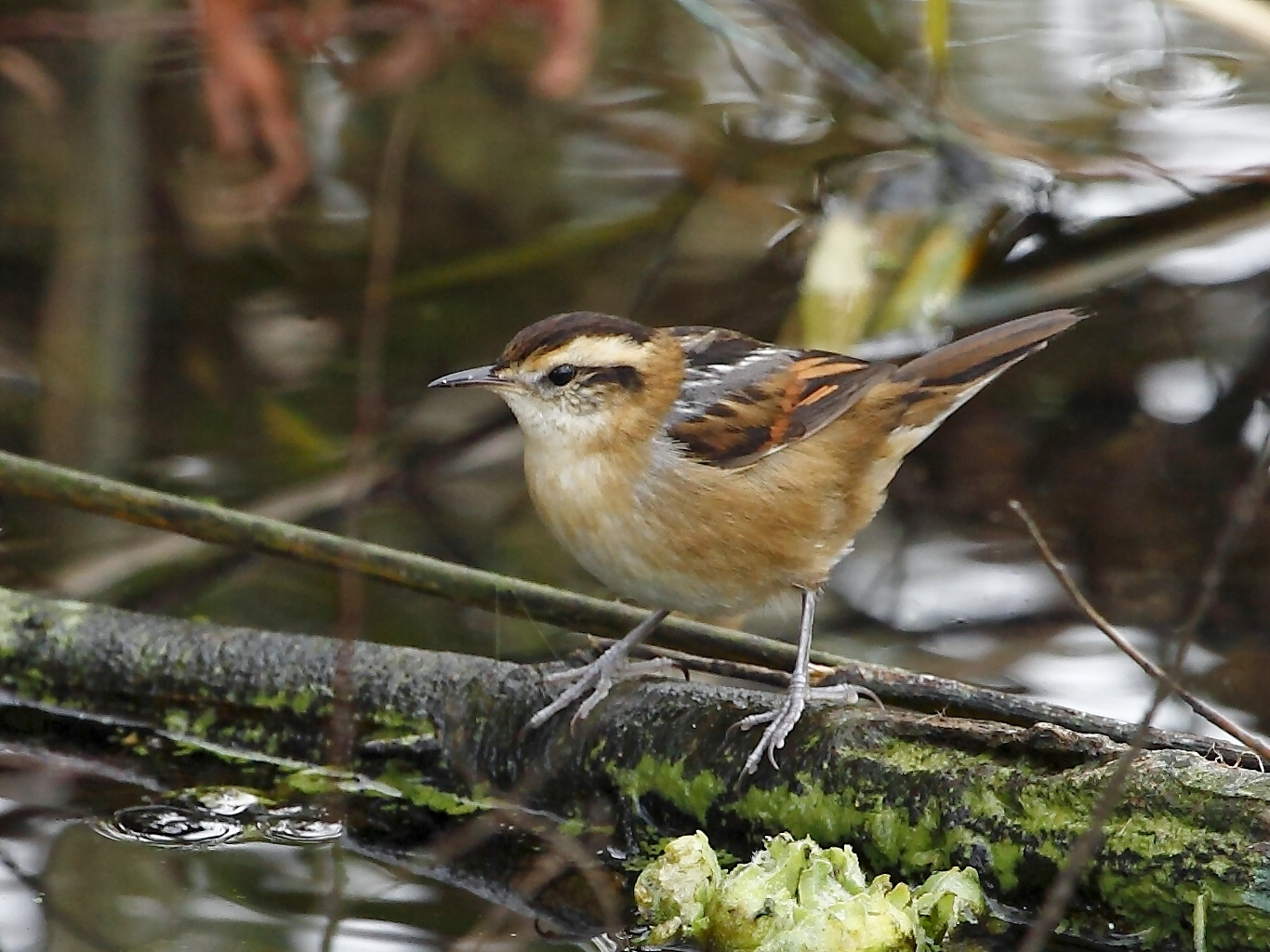 Wren-like rushbird; Montevideo, Uruguay